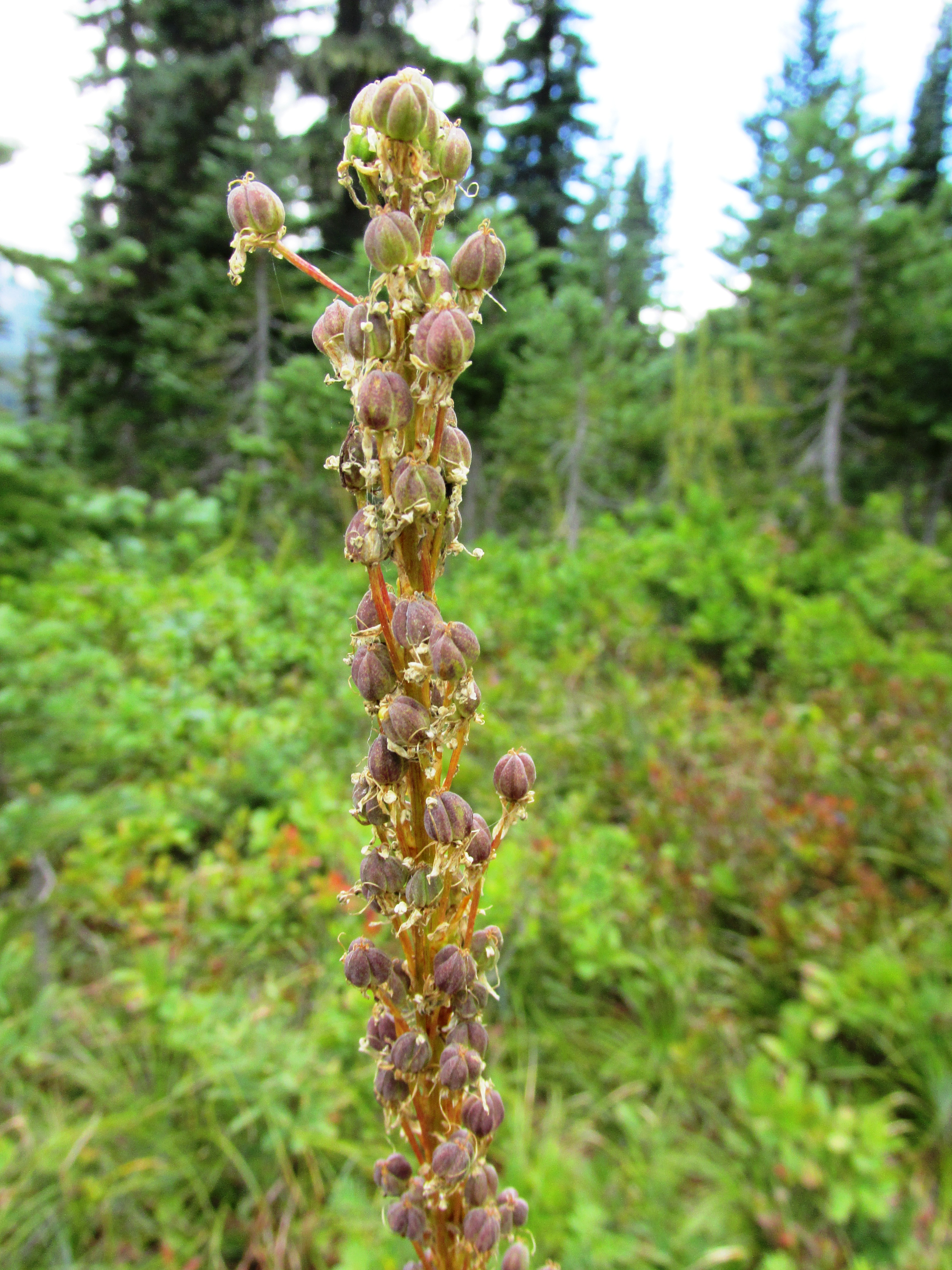 Xerophyllum tenax Bear grass releasing seed near Faraway Rock, Lakes Trail, Mount Rainier National Park. Elevation 1585 meters (5200 feet) Hiking and botanize in Reflection Lakes and Paradise area of Mount Rainier as part of MeadoWatch